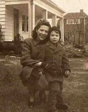 Found photograph at the Fahey house in Takoma Park, MD. Posted by mminsker, who is working on a full-length Fahey documentary.